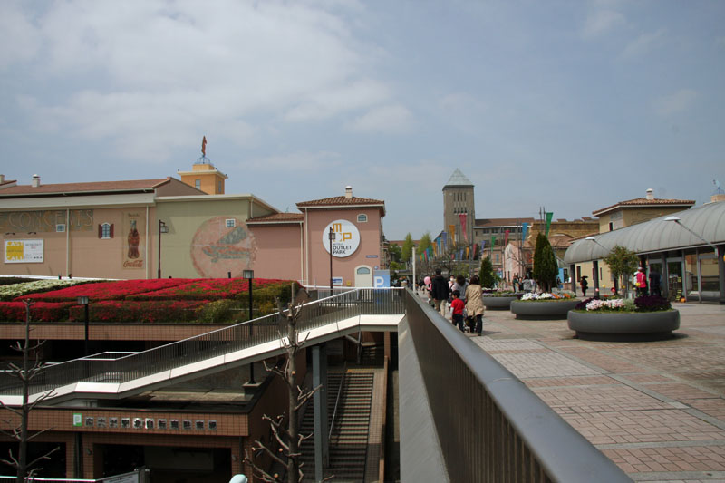 Mitsui Outlet Park Tama Minami-Osawa, Hachioji, Tokyo, Japan